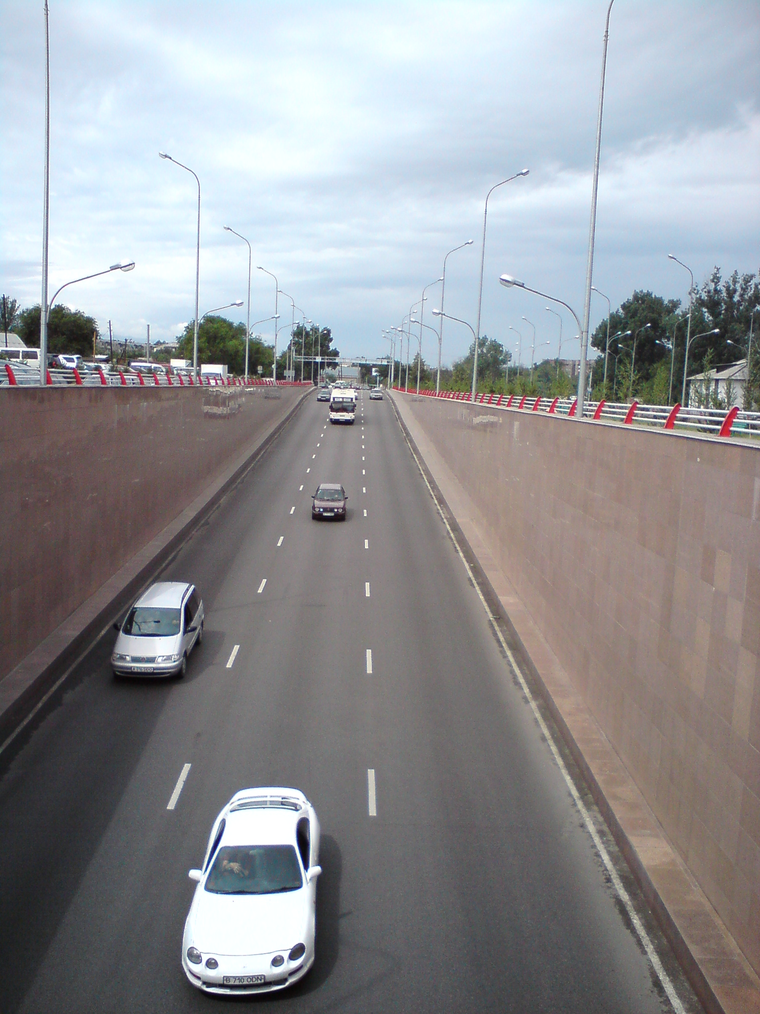 Kazakhstan, Almaty. Raimbek avenue after renovation.